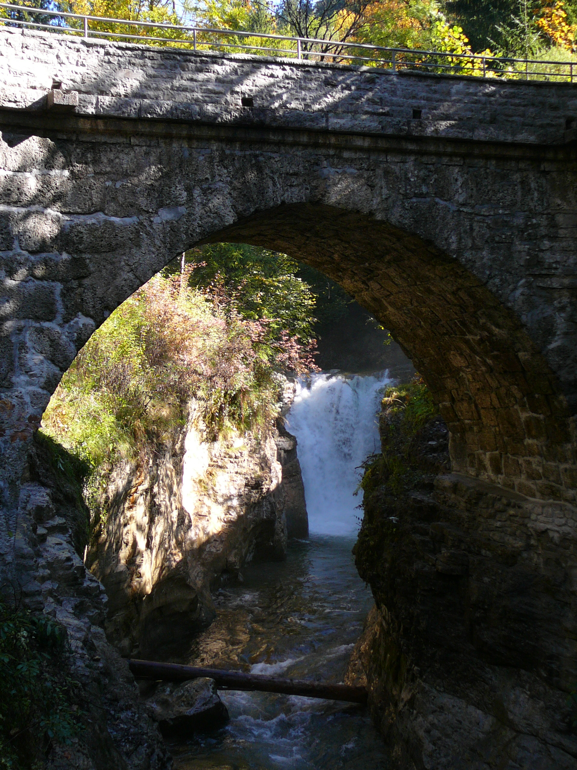 Roman bridge crossing river Taugl from Kuchl to Bad Vigau, Austria